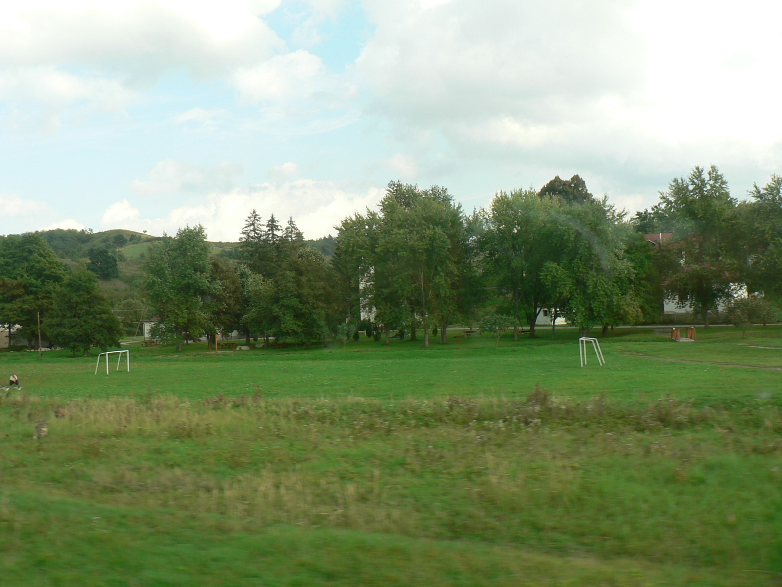 Bükkmogyorósdi sportpálya